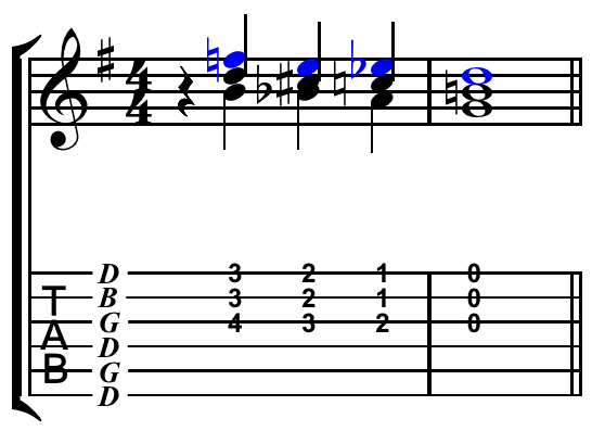 Blues turnaround in open G tuning.